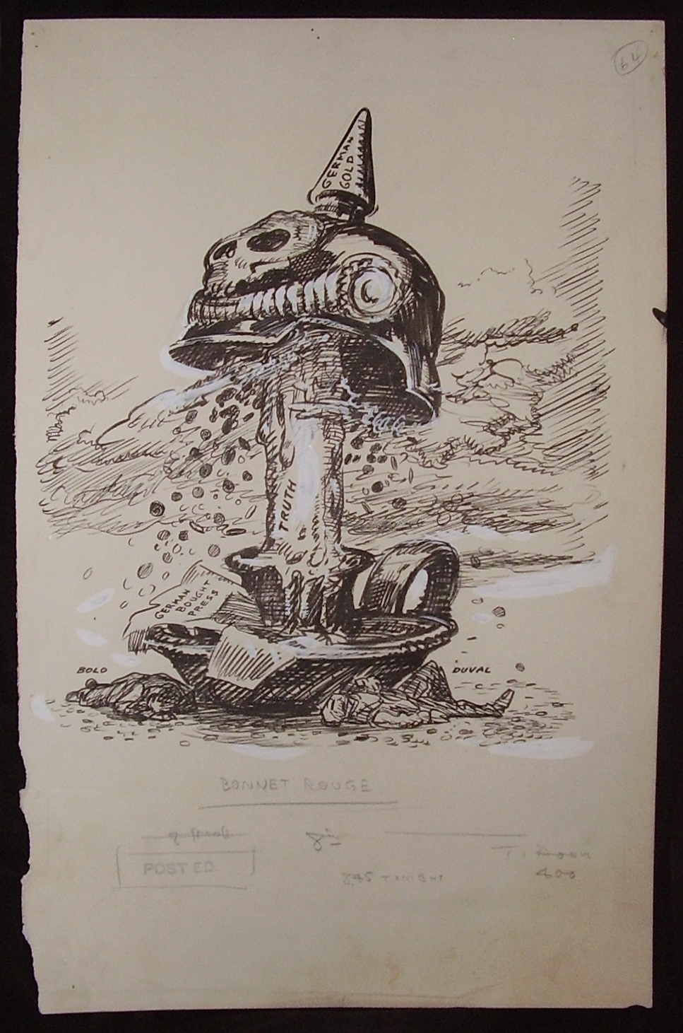 Original drawing for a political cartoon, by Oscar Cesare. Anti-german, WW1